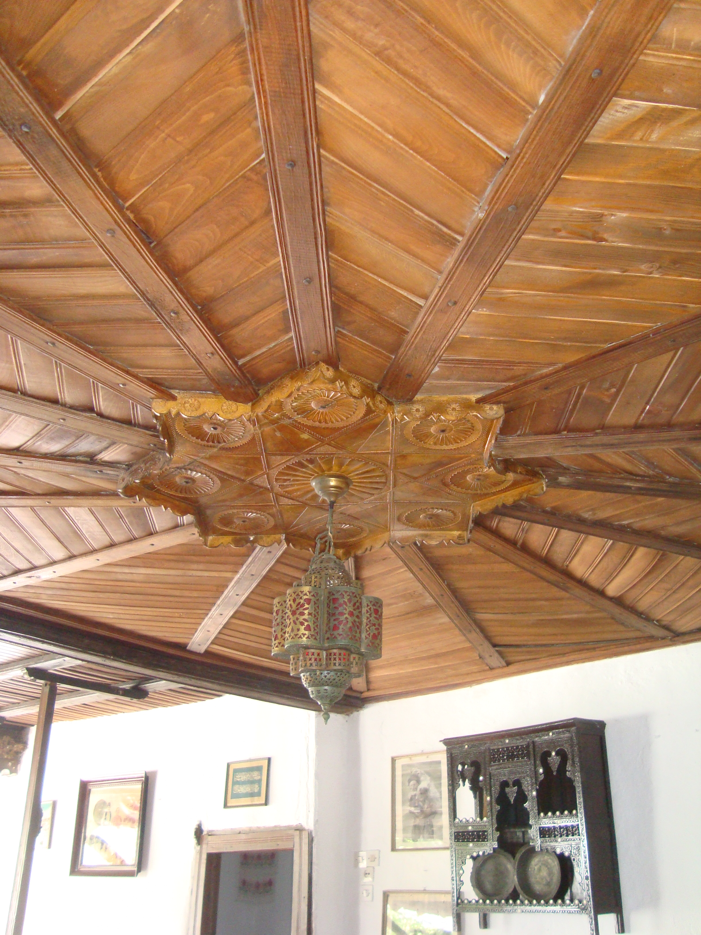 In the Bosniak house